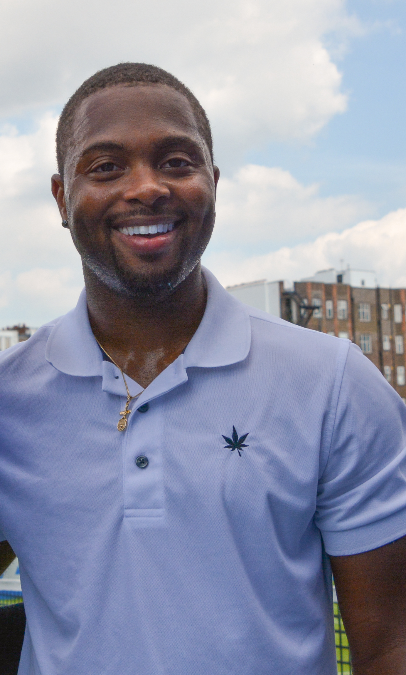 Aegon Championships 2017.